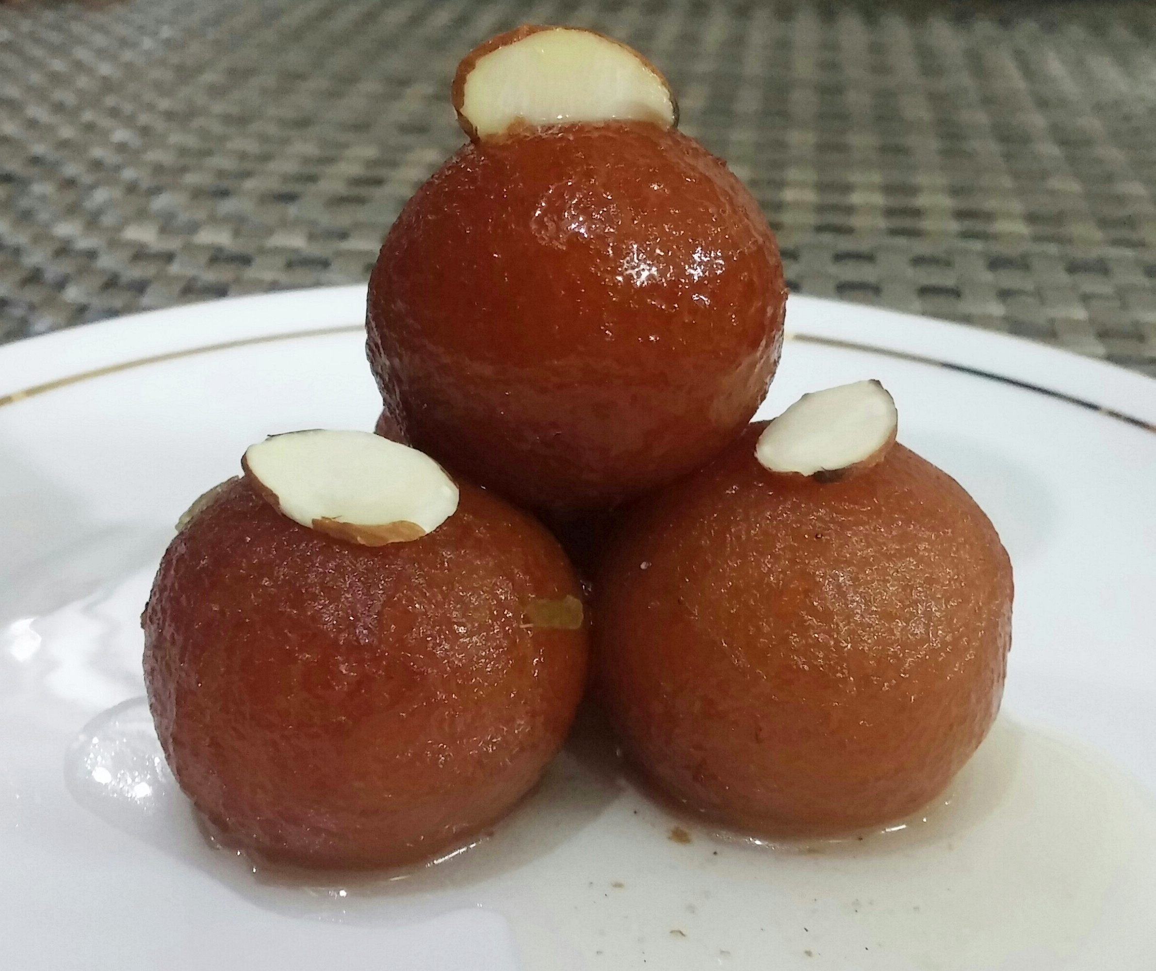 Rose coloured fried khoya balls soaked in elaichi and saffron flavoured sugar syrup